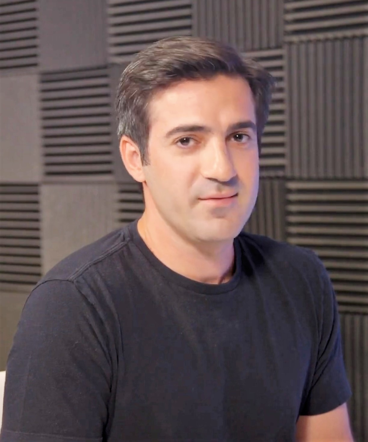 I'm With The Brand | Rus Yusopov, Co-founder, HQ Trivia on Adweek While it has cooled off from its super hot early days, HQ Trivia still draws hundreds of thousands of players each day for its live games. What makes the mobile video experience so hot? And what keeps bringing people back? Co-founder Rus Yusupov says it’s what you hear that he’s most proud of. “We spend a lot of time on the sound design and the music,” he tells us in this episode of I’m With the Brand. ImWithTheBrand #HQTrivia #brands